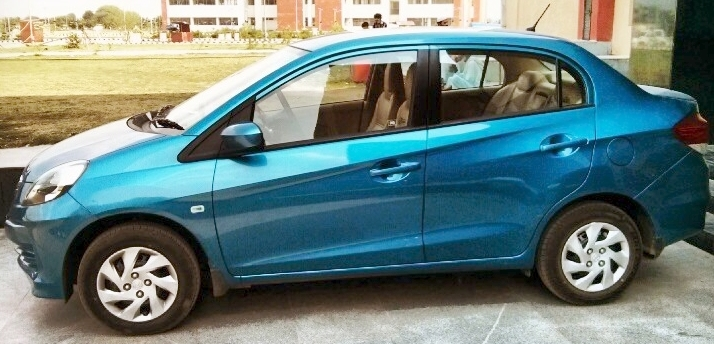 This is a pic of Honda Amaze Sedan.